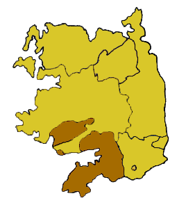 Diocese of Galway and Kilmacduagh in the Catholic Province of Tuam. This is a current map of the ecclesiastical province in the Catholic Church. The crosses mark where the current Cathedrals of each diocese is located. The specific dioceses are in different colours.